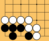 Go board showing a ko situation.